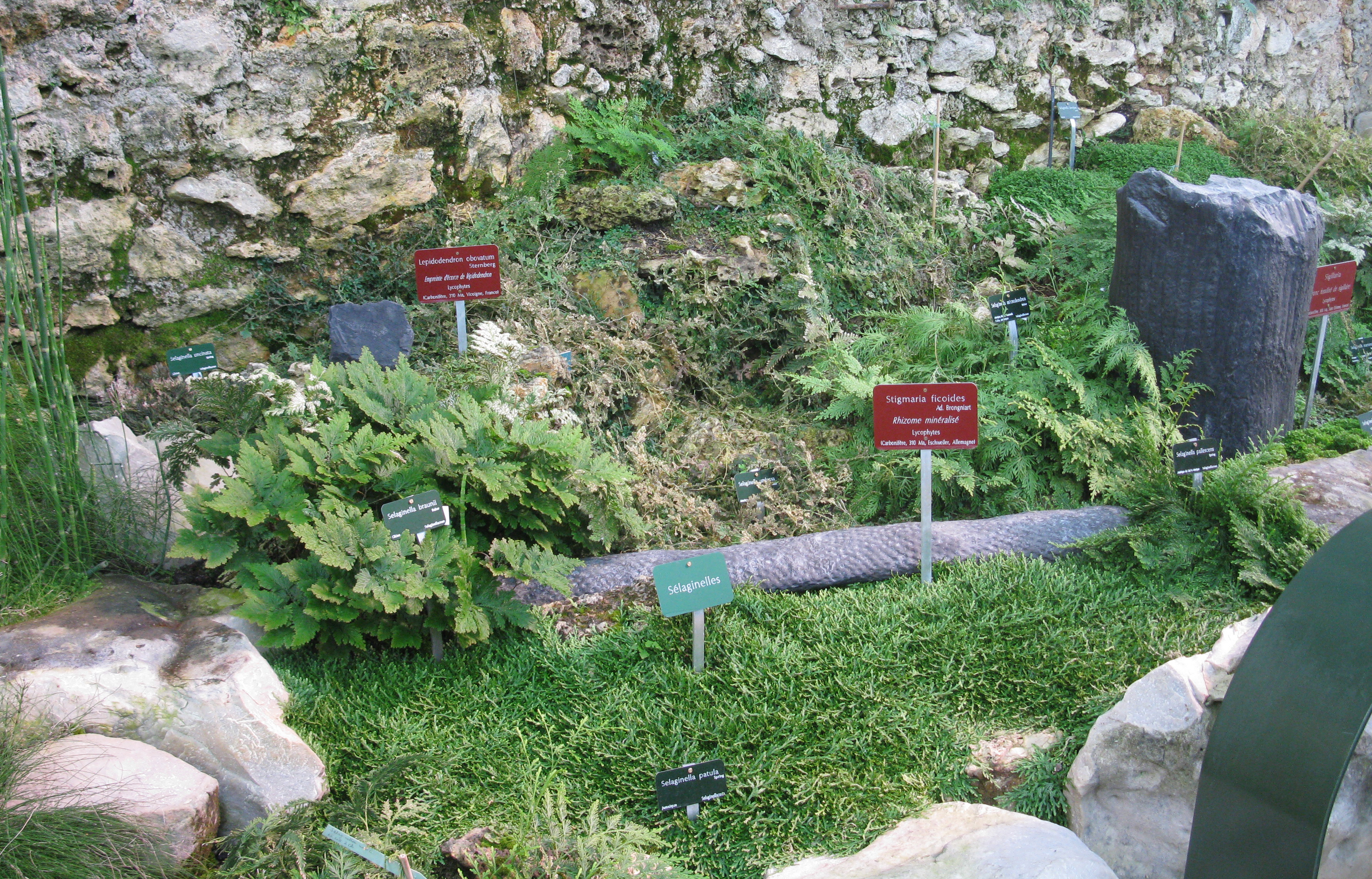 Inside the palaeobotanic greenhouse, Muséum national d'histoire naturelle, Paris